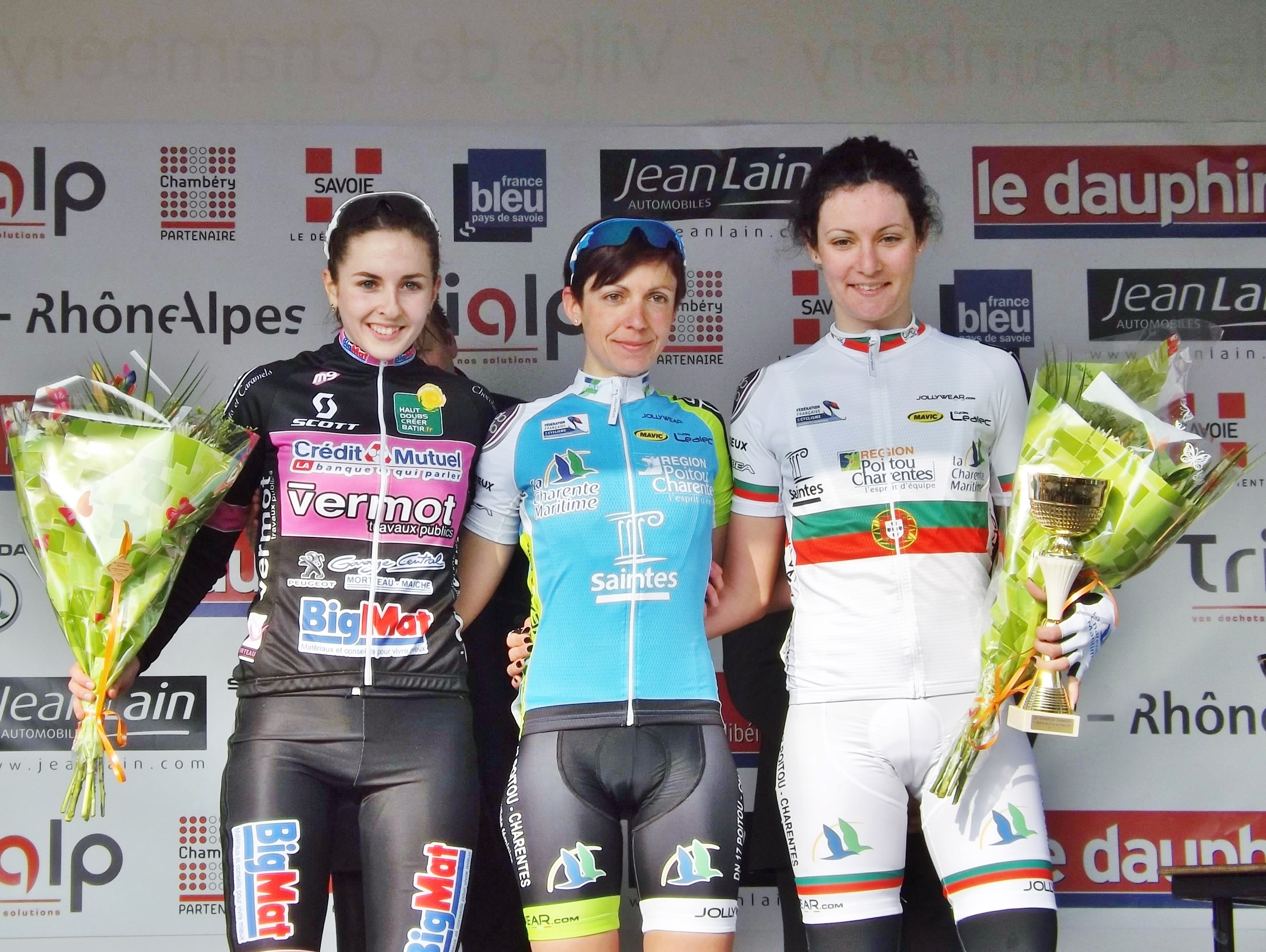 Sight of female cyclists Marjolaine Bazin (first, at the center), Juliette Labous (second, on the left) and Daniela Reis (third, on the right), on the 2016 Grand prix de Chambéry (first race of the French Cup) podium, in Savoie, France.